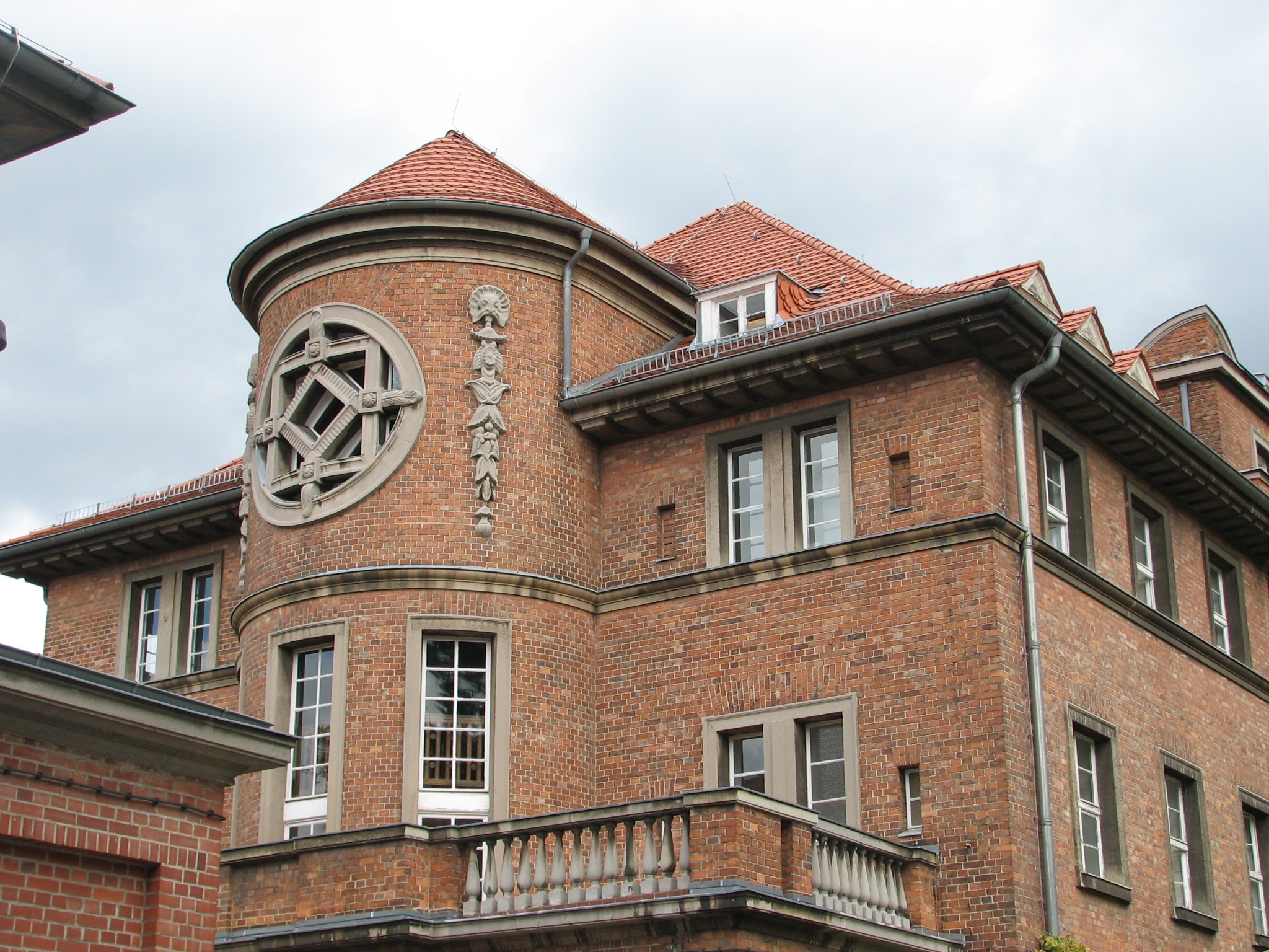 Detail of Buidling 22